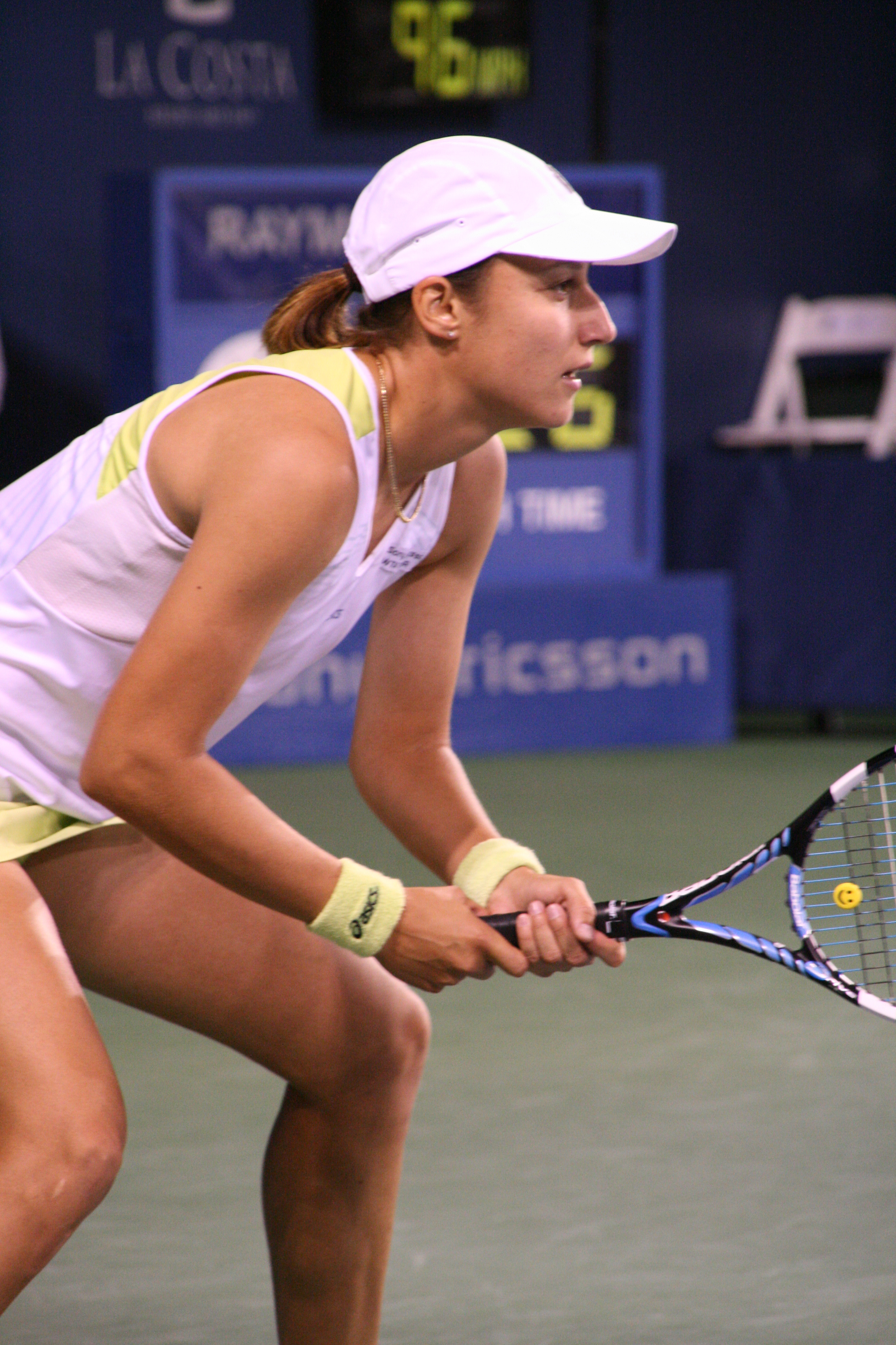 Katarina Srebotnik playing doubles at the 2007 Acura Classic.